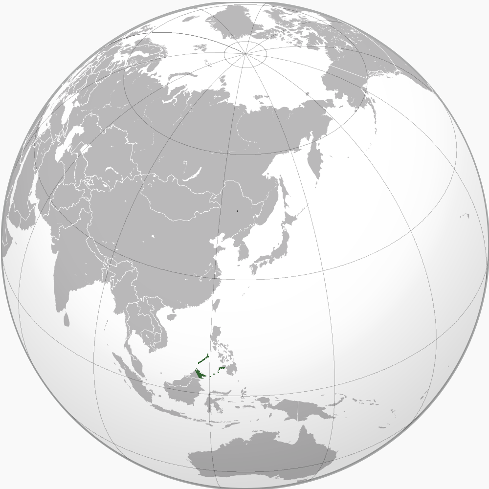 Green depicts the Sultanate of Sulu at its height